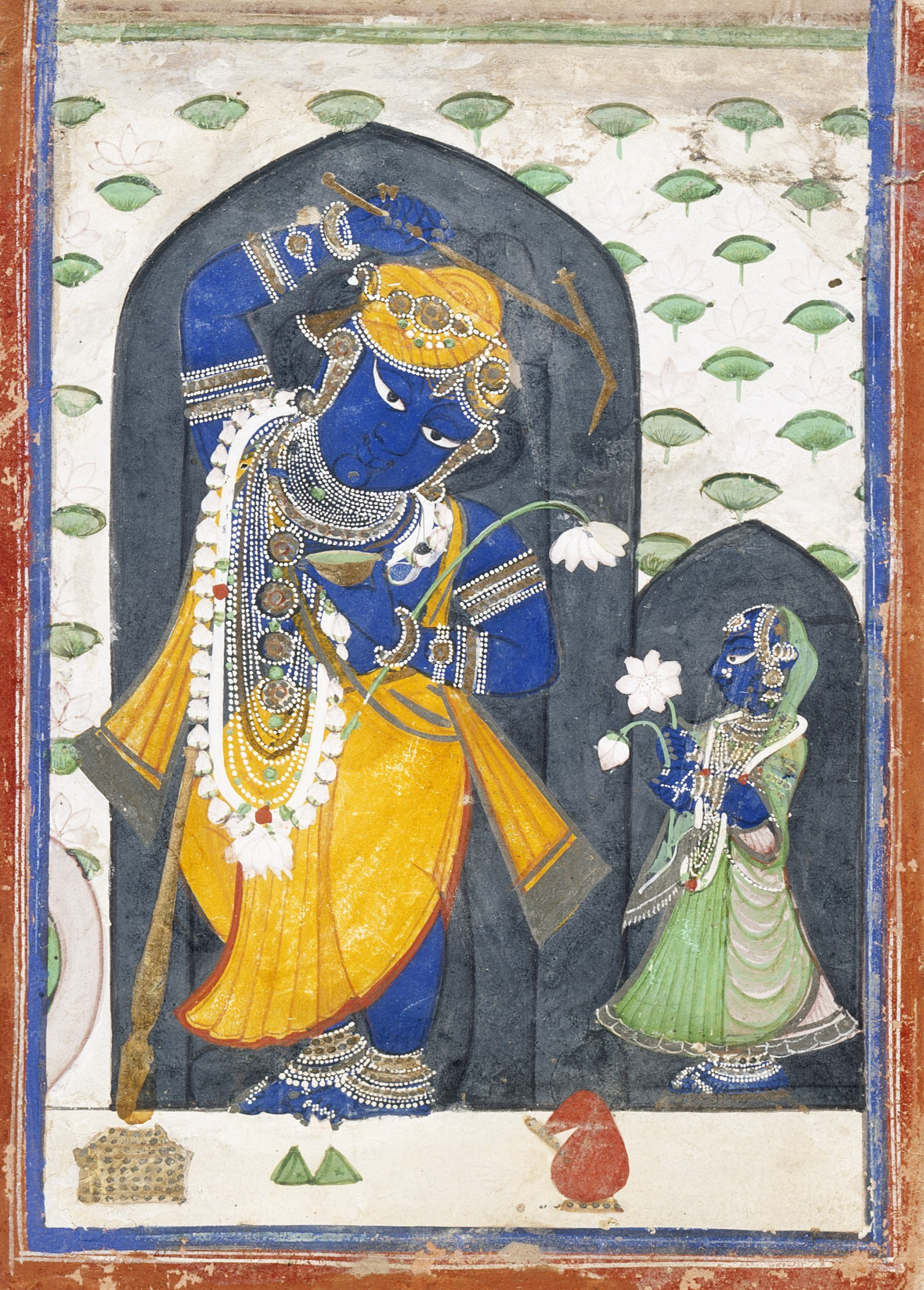 India, Rajasthan, Nathadwara, Late 19th century Drawings; watercolors Opaque watercolor, gold, and silver on paper Image: 6 1/4 x 4 1/4 in. (15.88 x 10.8 cm); Sheet: 6 3/4 x 4 3/4 in. (17.15 x 12.07 cm) Gift of Jane Greenough Green in memory of Edward Pelton Green (AC1999.127.33) South and Southeast Asian Art